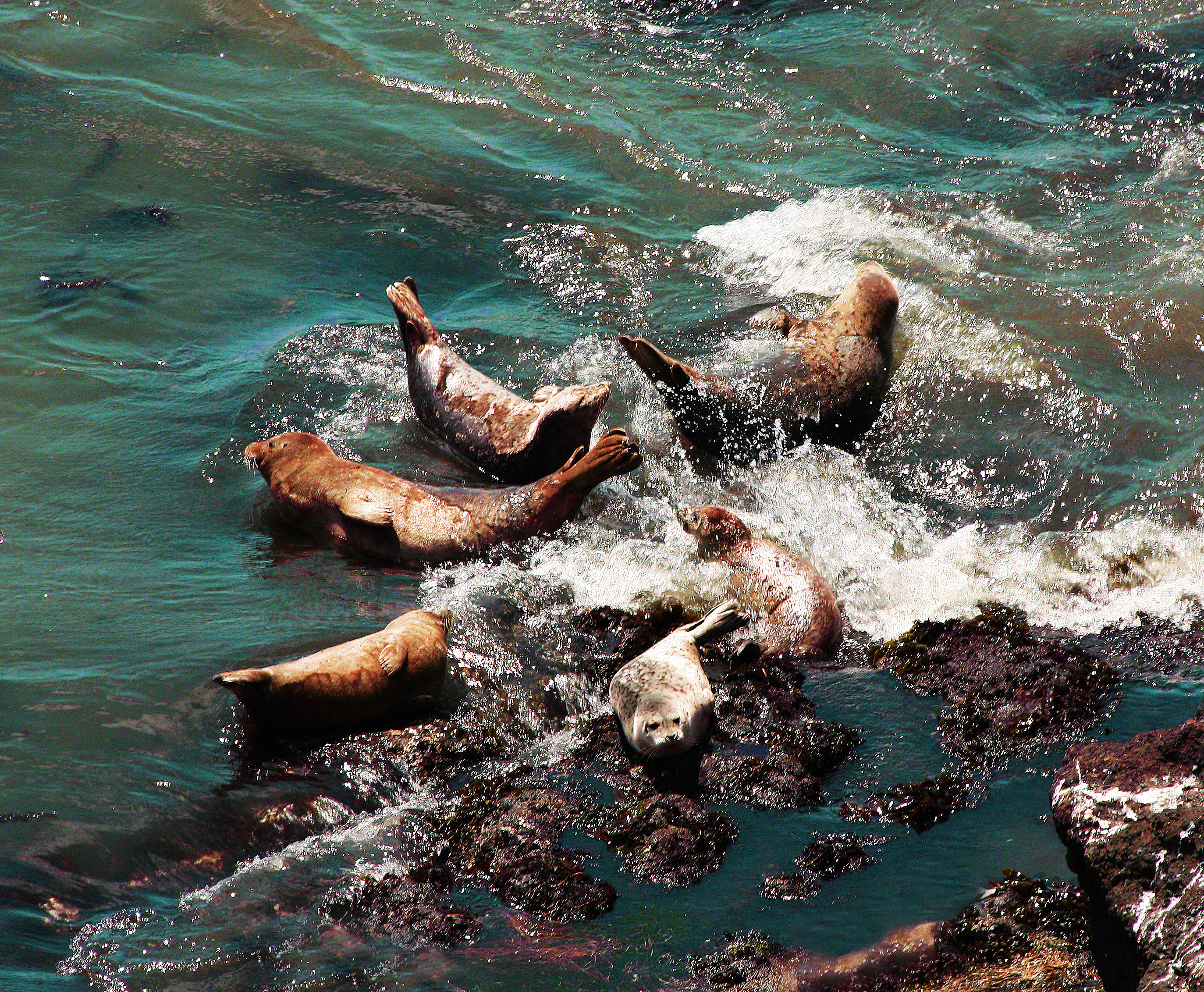 Harbor Seals cling to a rock, California